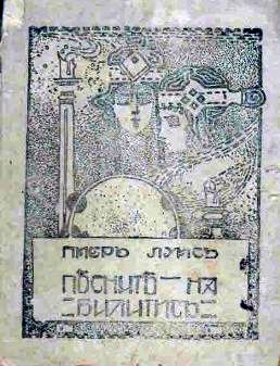 Pierre Louis (1870-1925), French writer Home page of the book "Songs of Bilitis" issued in Bulgaria in 1920